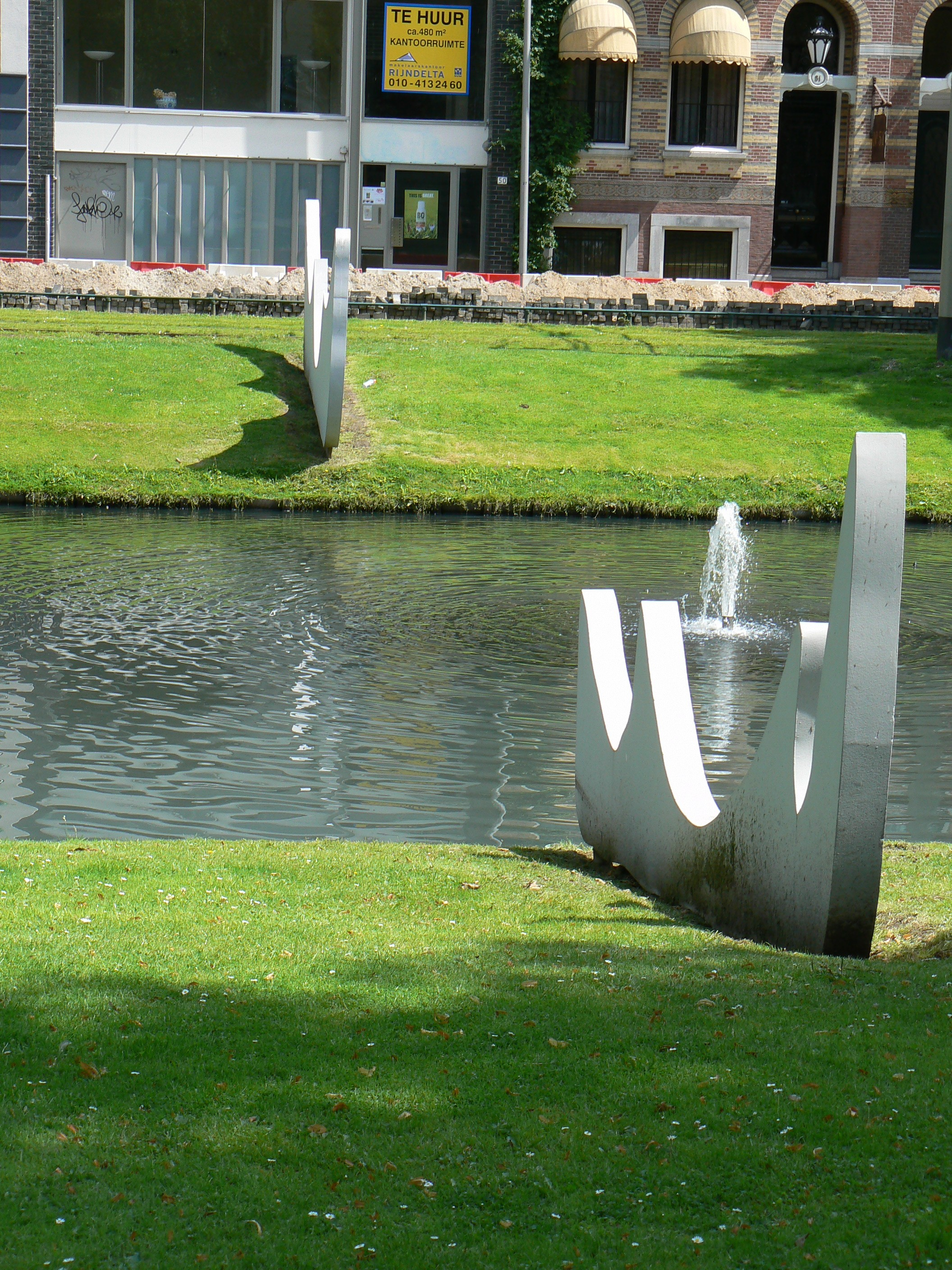 two part sculpture by Richard Artschwager (1988) in Rotterdam/The Netherlands (FOP)